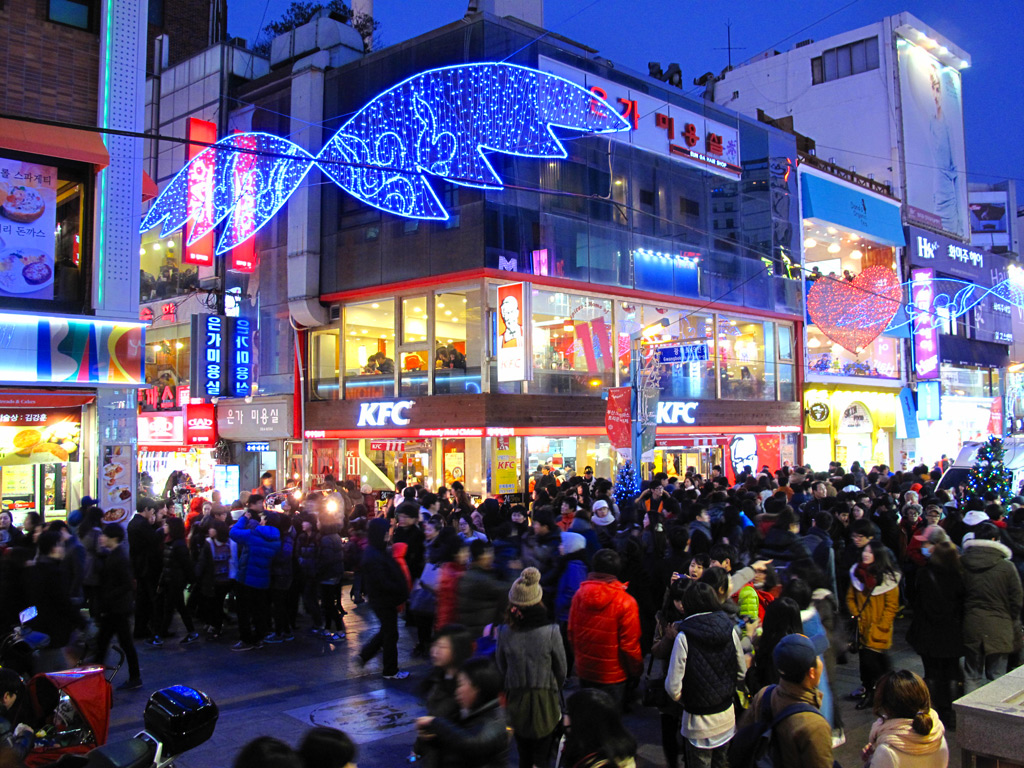 Christmas neon and crowds in Nampo-Dong, Busan, South Korea